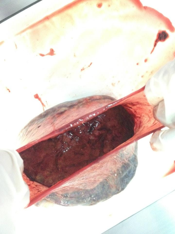 Human placenta after childbirth, used in Embriology course, for study.